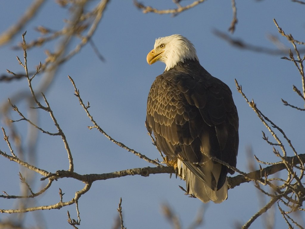 Bald Eagle in Keokuk, Iowa, by Thomas O'Neil. Available online at